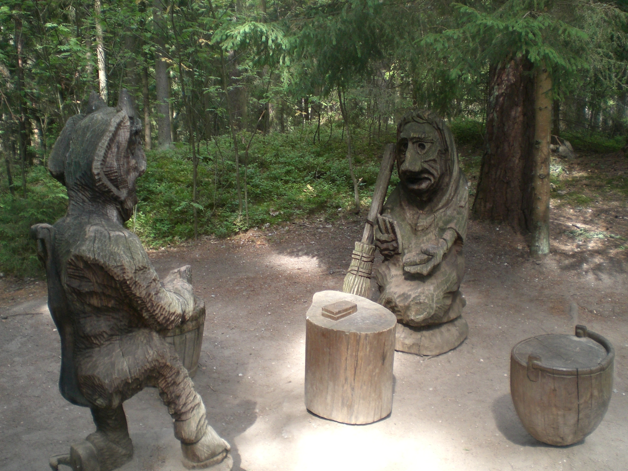 Wooden sculpture at "Raganų Kalnas", the "Hill of Witches", in Juodkrantė, Lithuania: the devil and a witch play cards